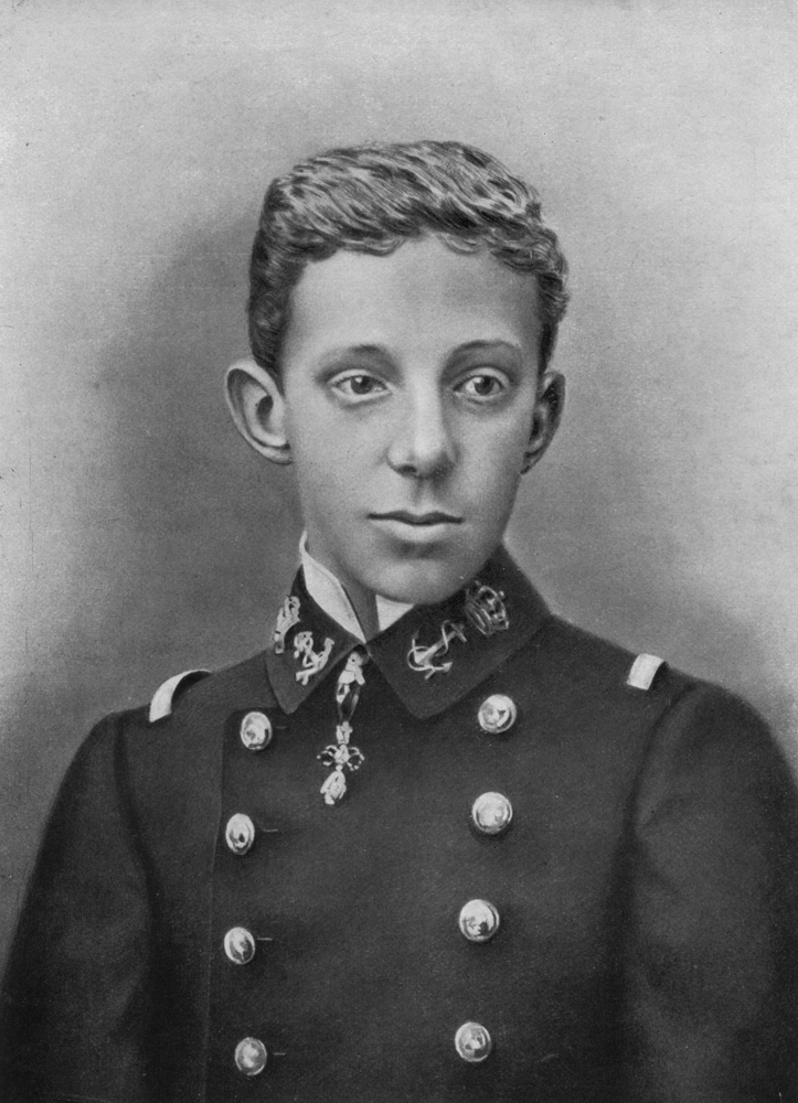 Alfonso XIII of Spain (1886-1941) in 1902.